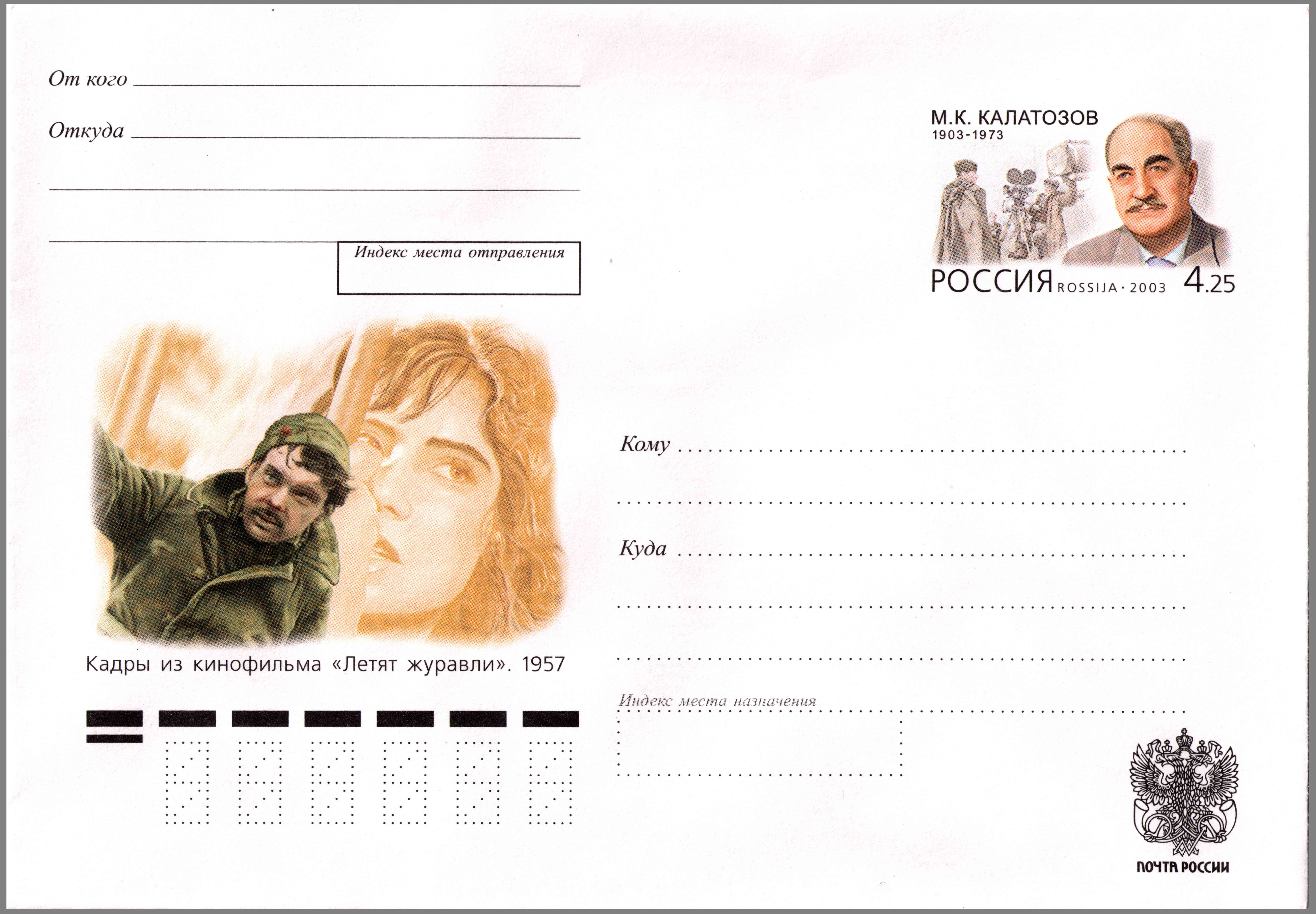 100th anniversary of the Soviet film director Mikhail Kalatozov (1903—1973). The ilustrated postal stationery envelope with the commemorative stamp, Russia, 2003. Catalogue of PTC Marka # 130-кор03. The commemorative stamp (4.25 rubles): the portrait of M. Kalatozov. The illustration: the scenes from the Soviet film The Cranes Are Flying (1957), Aleksey Batalov in the role of Boris, Tatiana Samoilova as Veronika